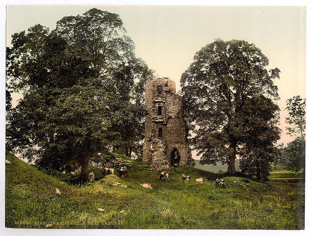 Kirkoswald Castle, near Lazonby, Lake District, England [between ca. 1890 and ca. 1900]. 1 photomechanical print : photochrom, color. Notes: Title from the Detroit Publishing Co., Catalogue J--foreign section, Detroit, Mich. : Detroit Publishing Company, 1905. Print no. "11066". Forms part of: Views of the British Isles, in the Photochrom print collection. Subjects: England--Lazonby. Format: Photochrom prints--Color--1890-1900. Repository: Library of Congress, Prints and Photographs Division, Washington, D.C. 20540 USA, Part Of: Views of the British Isles (DLC) 2002696059 More information about the Photochrom Print Collection is available at Higher resolution image is available (Persistent URL): Call Number: LOT 13415, no. 523 [item]